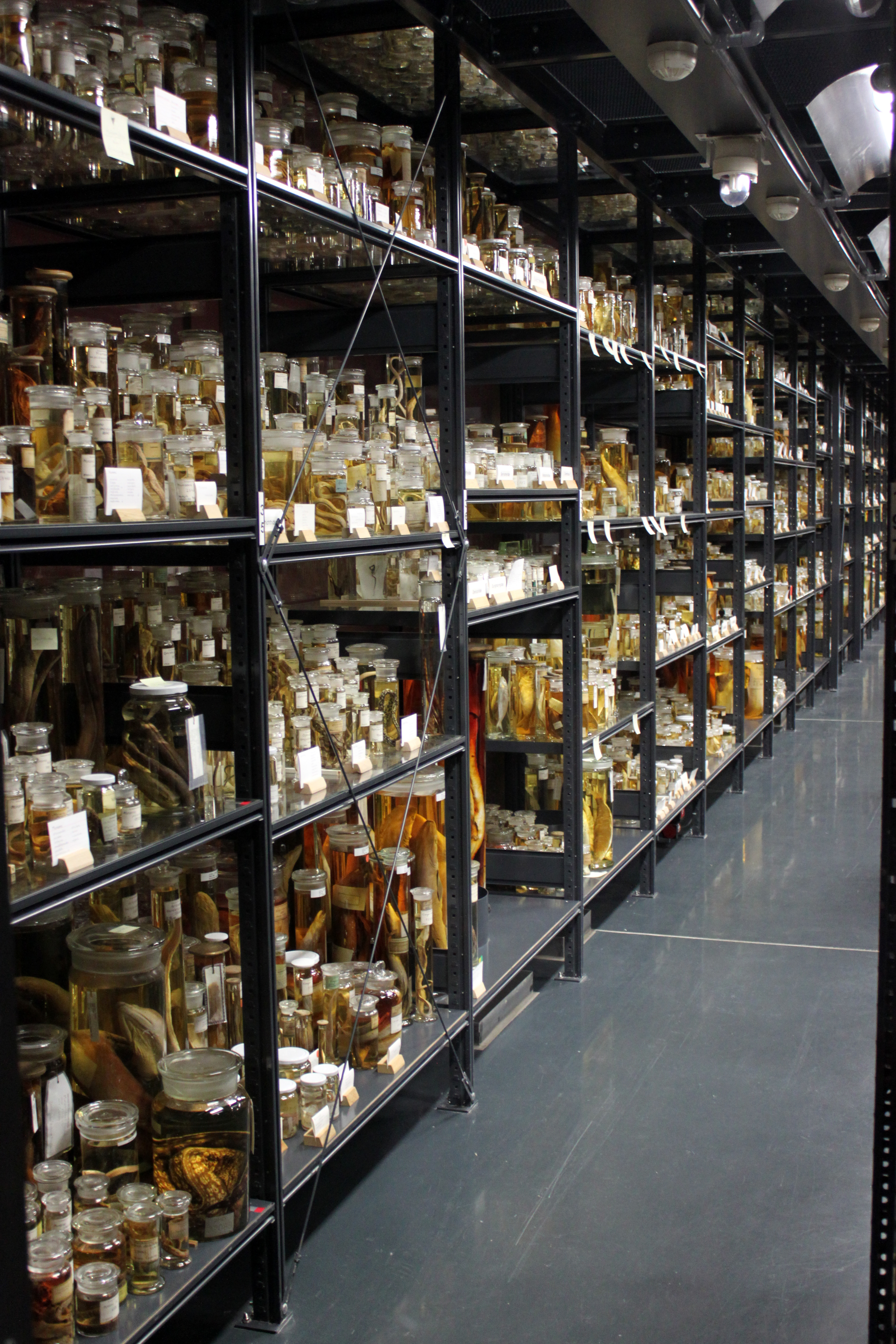 Research collection in the Natural History Museum Berlin